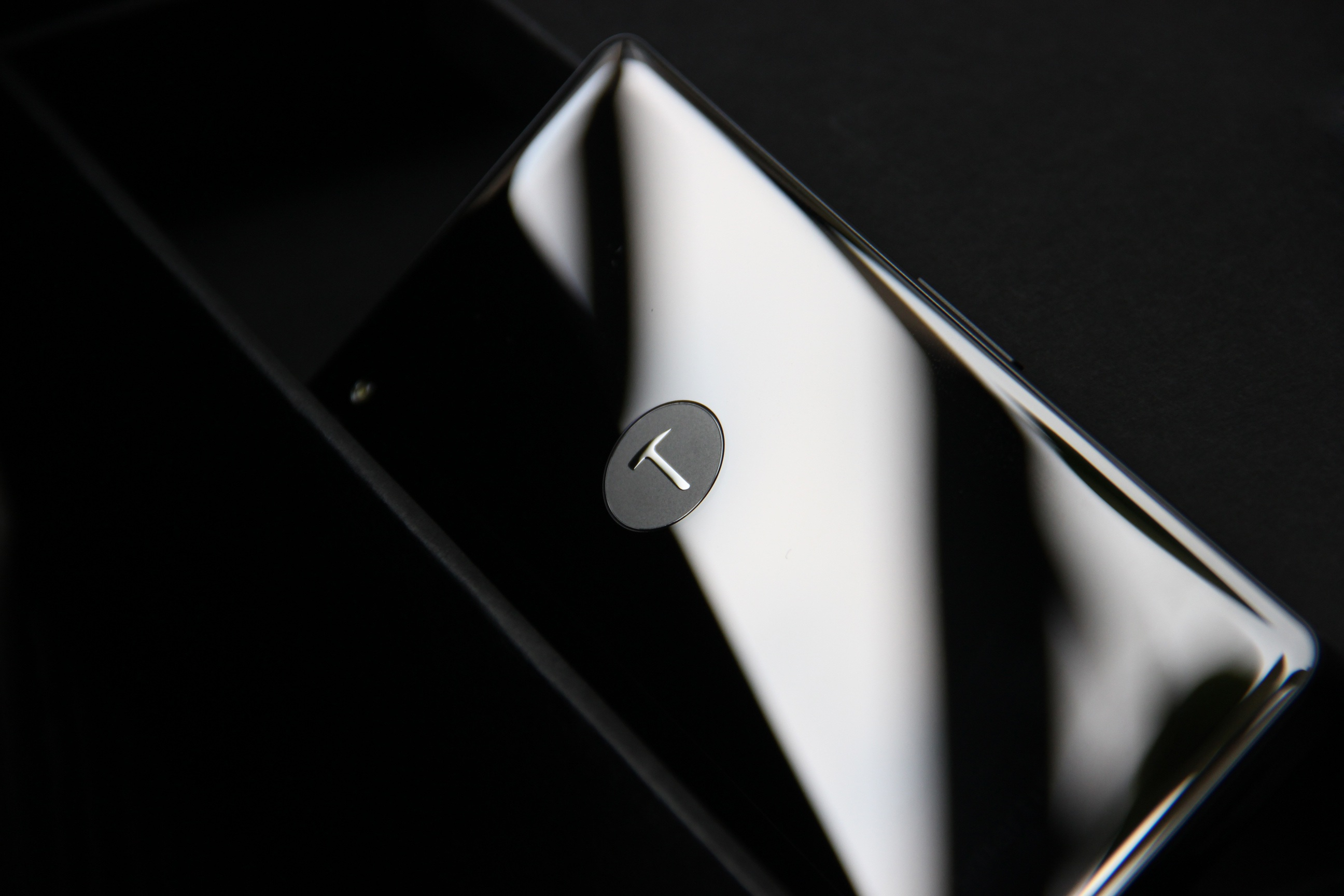 Smartisan T1, Black